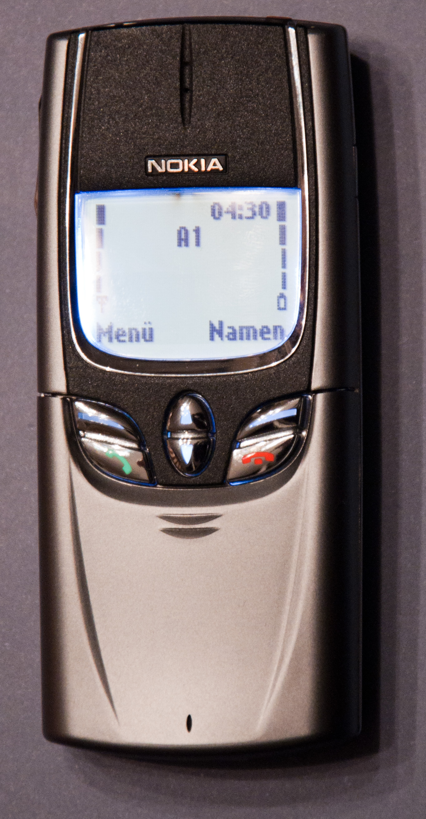 Nokia 8850i